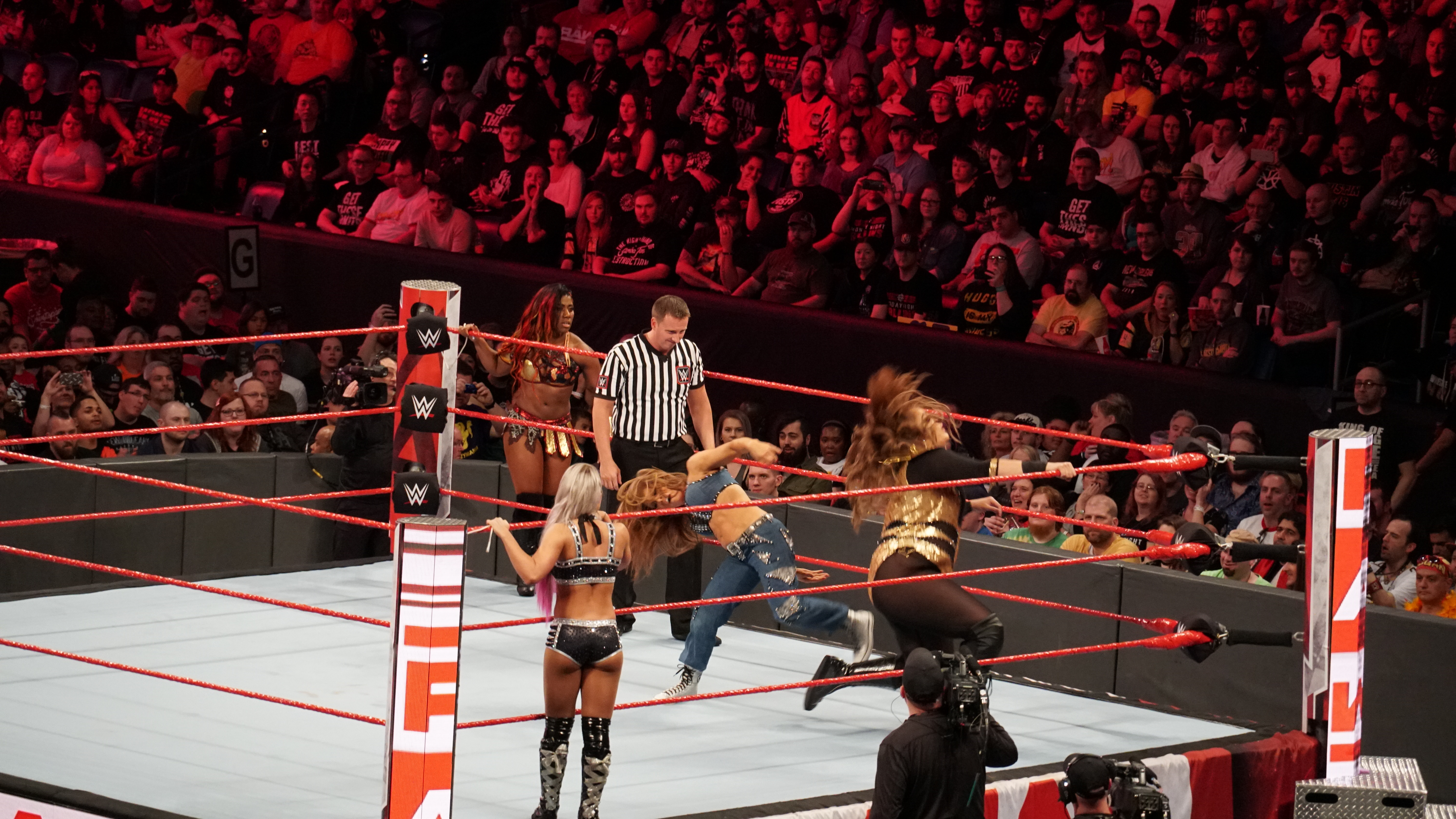 NOLA 2018 - WWE RAW - Ember Moon&Nia Jax Vs Alexa Bliss&Mickie JamesEmber Moon&Nia Jax def. (pin) Alexa Bliss&Mickie James (in 03:02)Beginning of Ember Moon at Raw( Deux semaines a Nola pour la ville et pour WWE Wrestlemania XXXIVTwo weeks Nola for the city and for WWE Wrestlemania XXXIV )